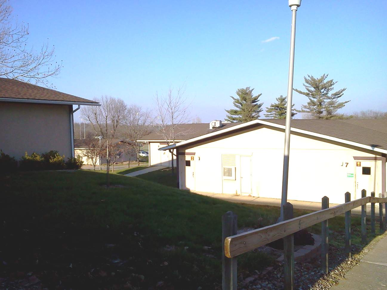 A view of some of the modular classrooms at Indian Hills Community College - Centerville campus, Centerville, Iowa. The majority were constructed in the early 1970s.